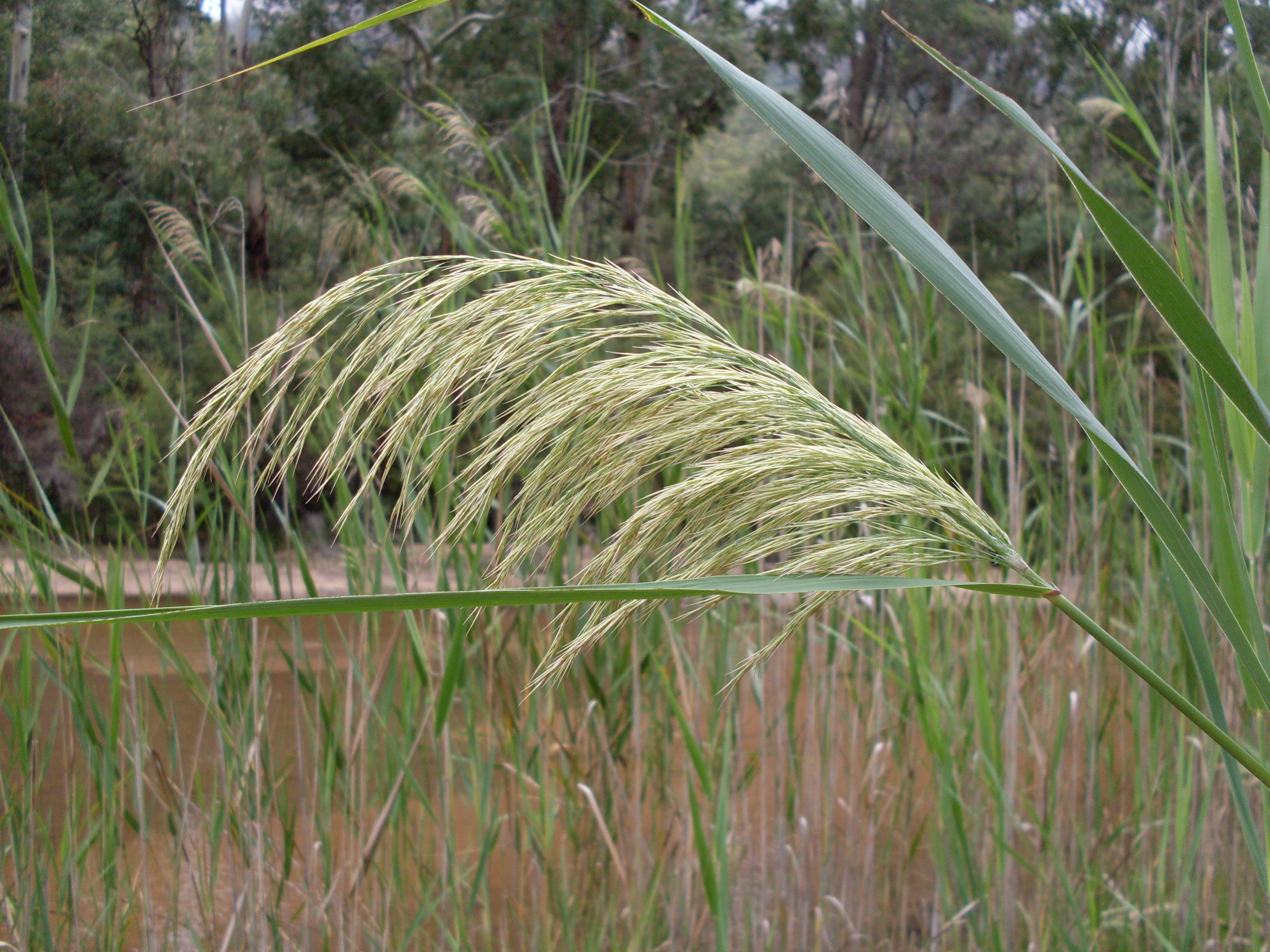 Phragmites australis in flower. Wollemi National Park, Newnes, NSW Australia, March 2009